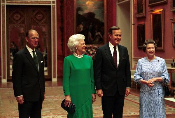 President and Mrs. Bush arrive Buckingham Palace where they are met by Queen Elizabeth and Prince Philip, London, England.